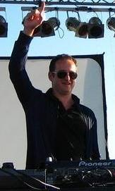 Sasha (left) at an August 2006 performance with Spooky (Duncan Forbes center and Charlie May right)